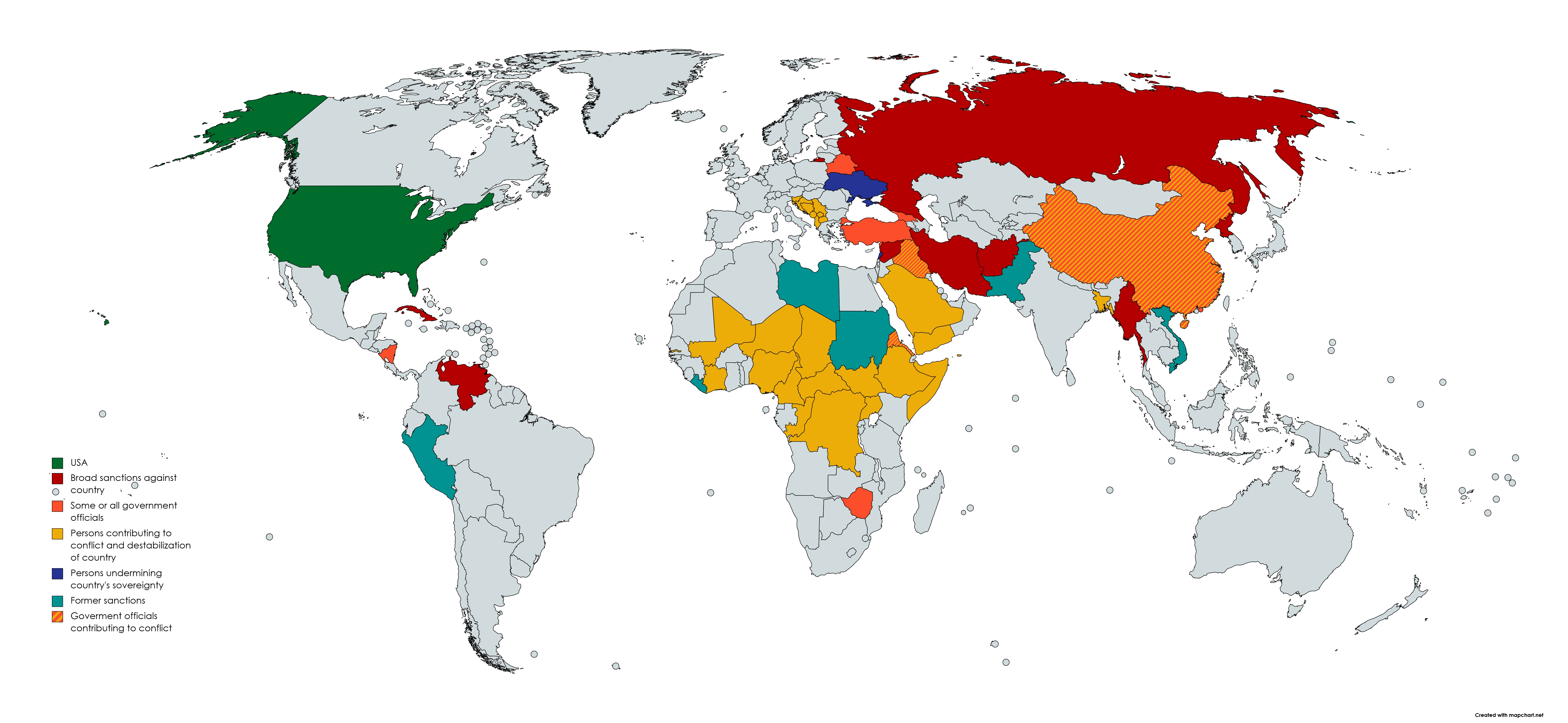 Countries sanctioned in some form by the US